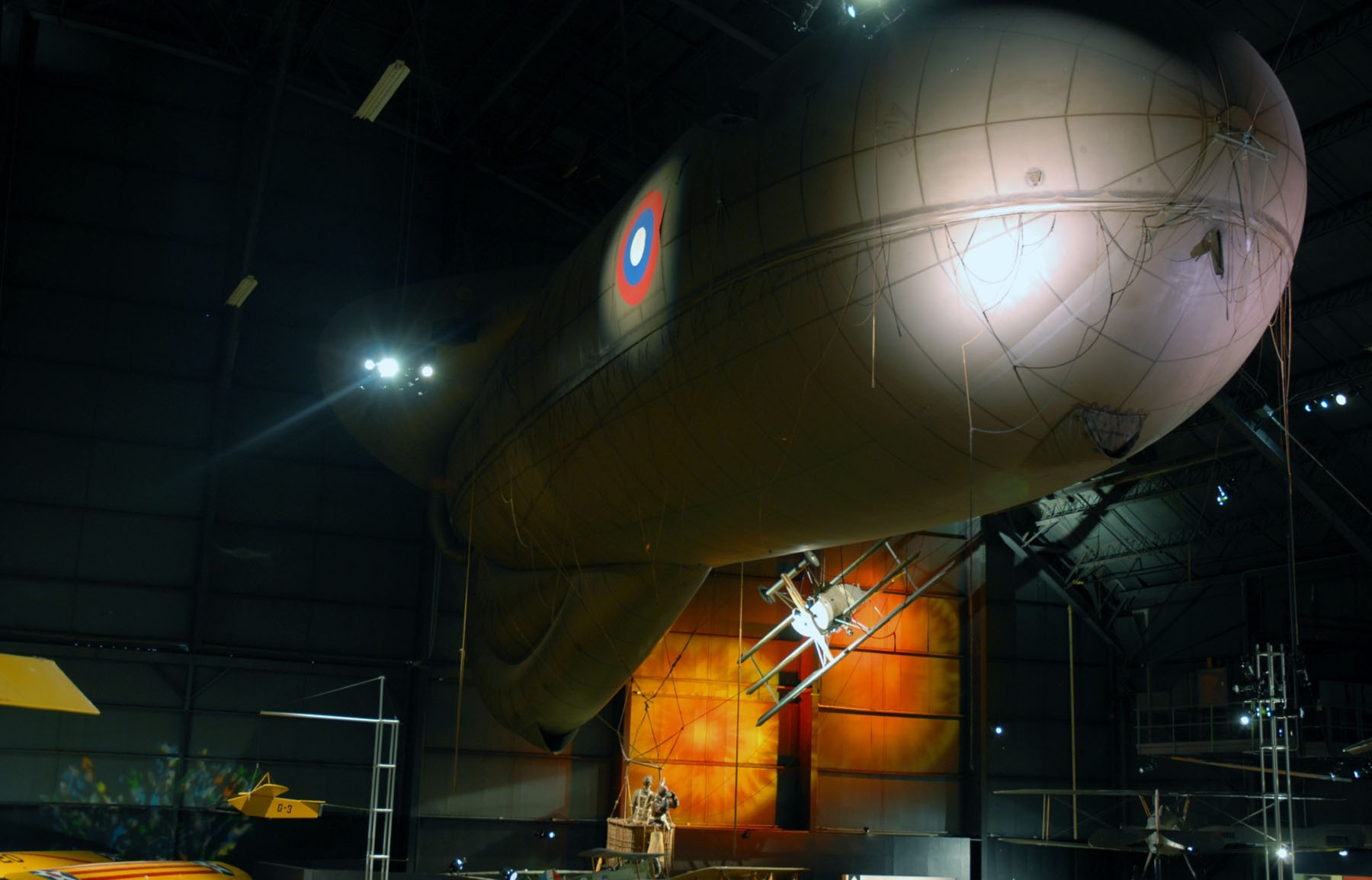 USAF Museum description : "Caquot Type R Observation Balloon in the Early Years Gallery at the National Museum of the United States Air Force. Tethered balloons allowed World War I observers to see as far as 40 miles behind enemy lines to spot troop movements, chart trench systems and direct artillery fire. The observation balloon most used by Americans was named for its designer, French engineer Lt. Albert Caquot. The hydrogen-filled balloon could lift two passengers in its basket, along with charting and communications equipment, plus the weight of its mooring cable, to a height of about 4,000 feet in good weather. Normal operations were between 1,000 and 4,000 feet. During WWI, American balloon observers directed artillery fire at targets such as troop concentrations and supply dumps. They noted more than 1,000 enemy airplane sightings, 1,000 instances of military traffic on railroads and roads and 400 artillery batteries. Caquot balloons were manufactured in great numbers in WWI; nearly 1,000 were made in the United States in 1918-1919. During World War II, the British produced Caquots once again, but in limited numbers. Manufactured in 1944, the balloon displayed at the museum is believed to be the only survivor. The British used it for parachute testing and noncombat aerial observation and photography until 1960. The British Ministry of Defense, Royal Aircraft Establishment, presented the Caquot to the museum after it was located with the aid of American and British WWI balloon veterans in 1975. Assisted by the Goodyear Aerospace Corp. of Akron, Ohio, which had produced these balloons during WWI, museum personnel mended and sealed the balloon fabric and prepared it for inflation. It was placed on display in May 1979. TECHNICAL NOTES: Gas capacity: 32,200 cu. ft. Length: 92 ft. Diameter: 32 ft."